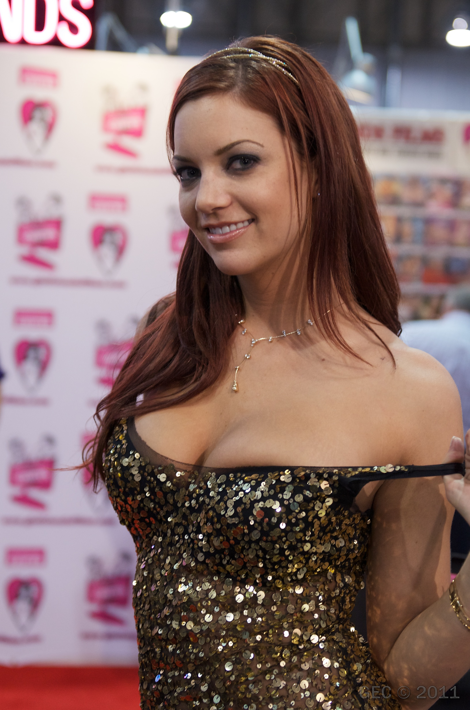 2011 AVN Adult Entertainment Expo (AEE) - Las Vegas Sands Center.